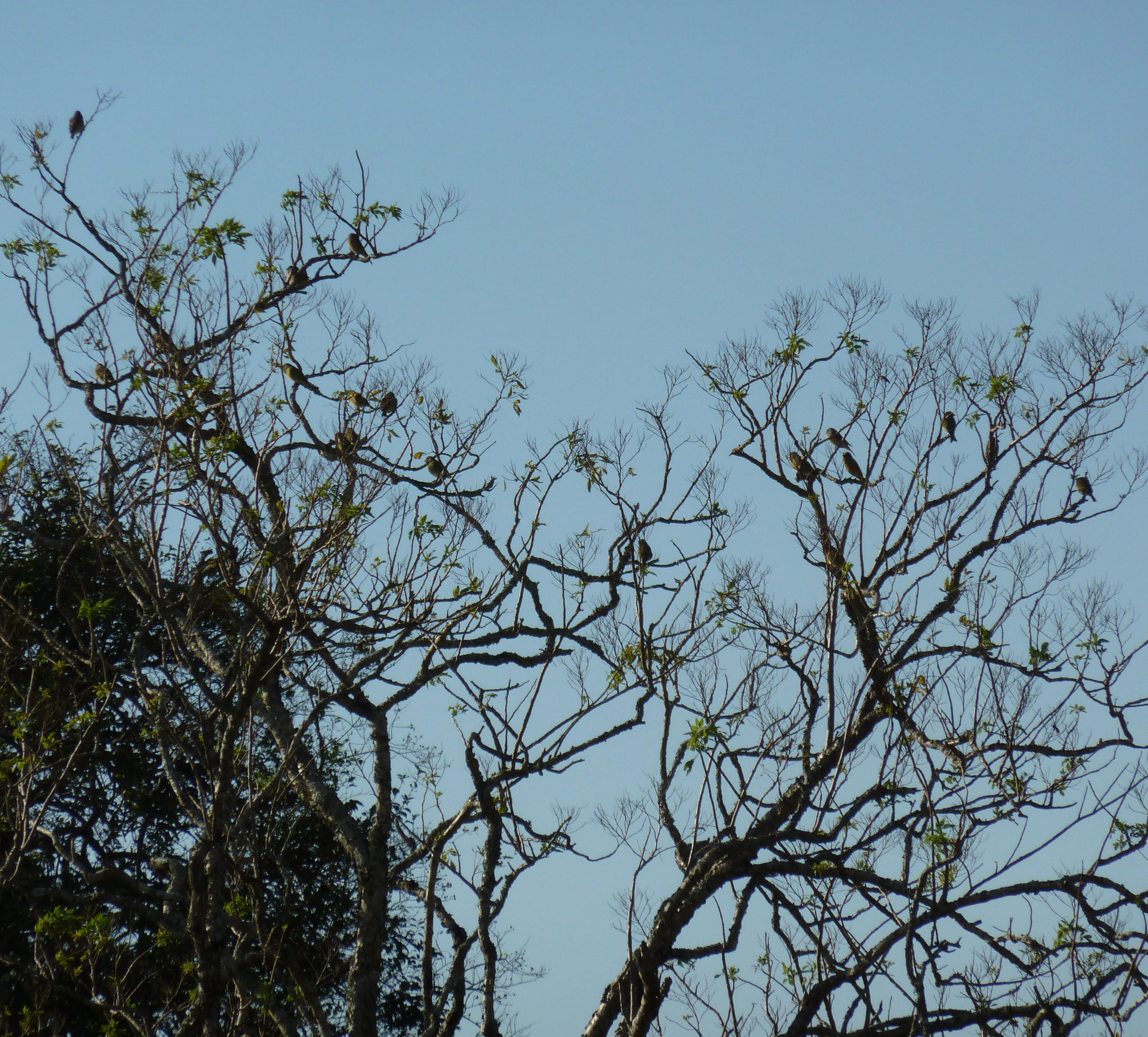 Winter flock of about 18 Cape Canaries perched and singing in the upper branches of a tree, near Louwsburg, KwaZulu-Natal